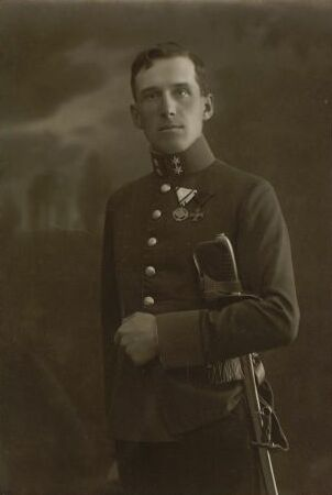 Pavel Golia, Slovene poet, playwright and officer.